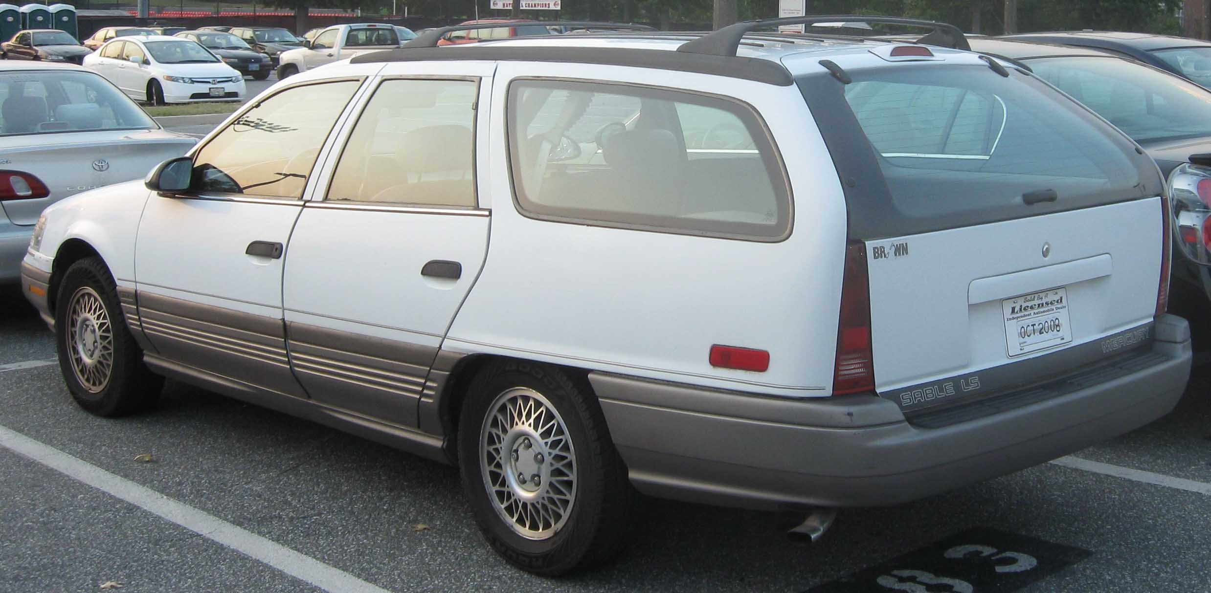 1989-1991 Mercury Sable photographed in College Park, Maryland, USA.